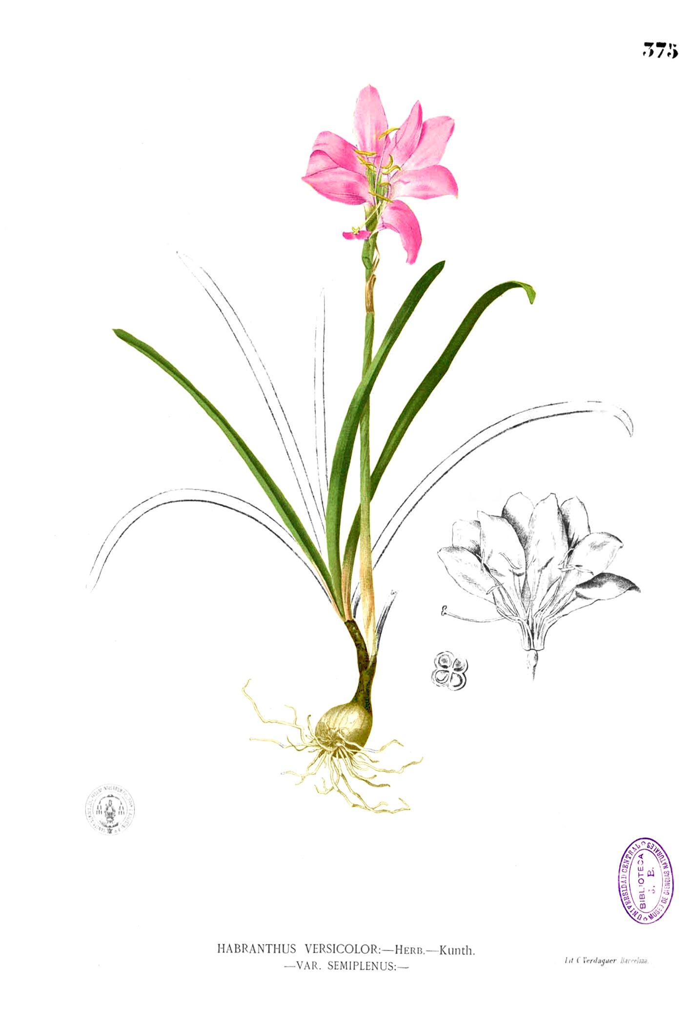 Plate from book